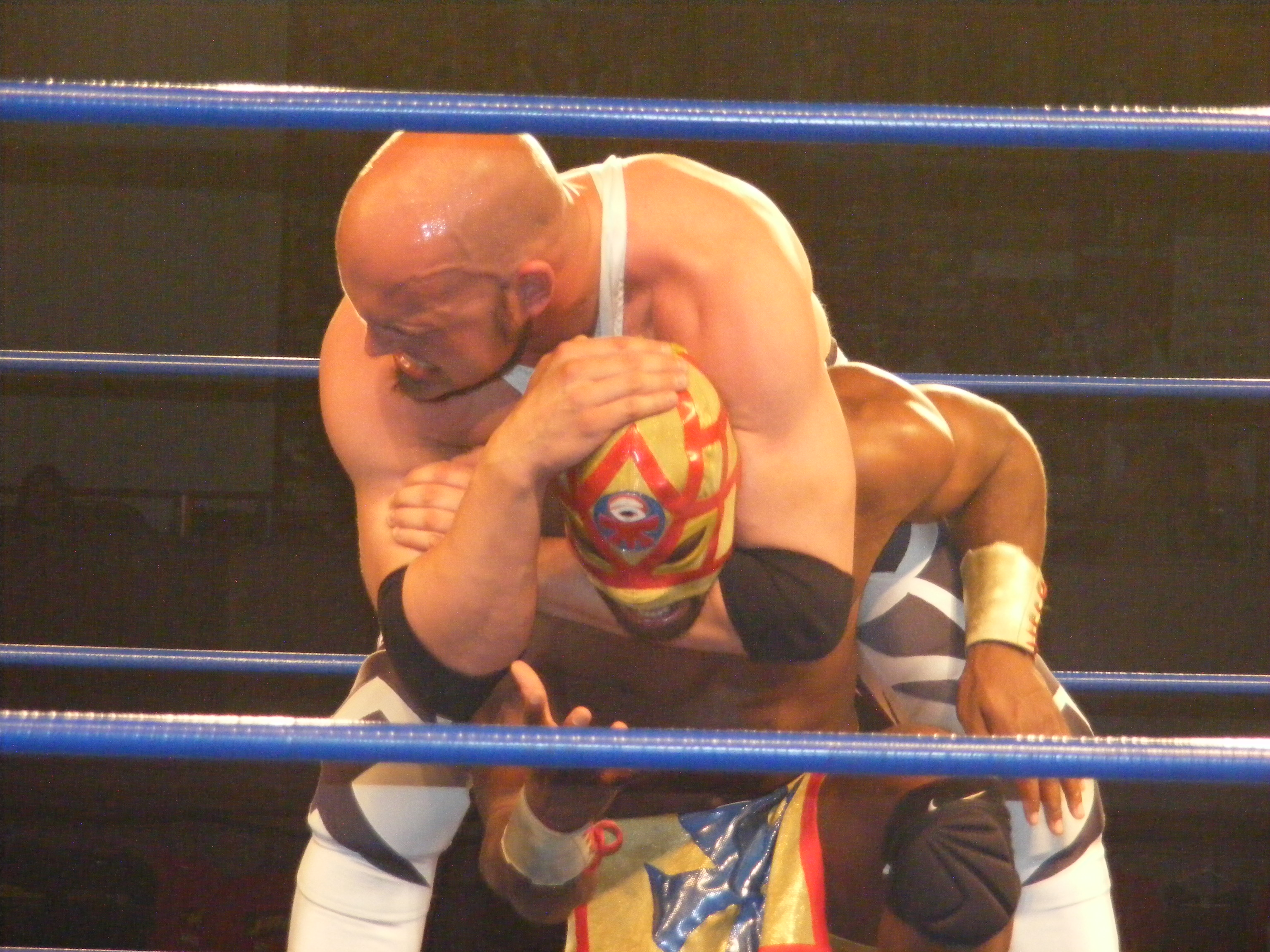 Professional wrestler Ares (real name Marco Jaggi) performing a headlock on Amasis at the King of Trios 2010 Night 1 in Philadelphia on April 23, 2010.